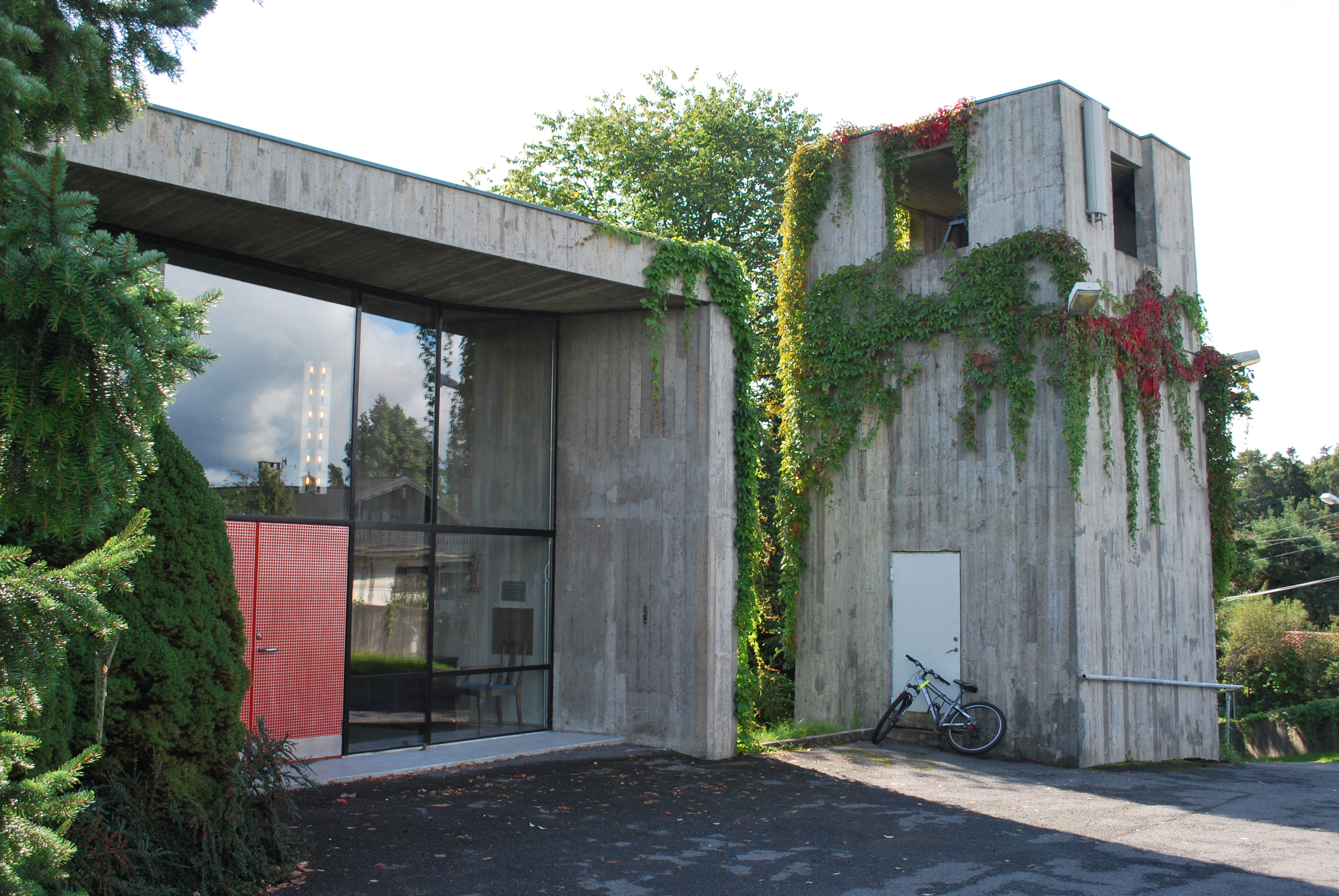 Snarøya church, Bærum, entrance. Built 1968, architects Odd Østbye and Harald Hille